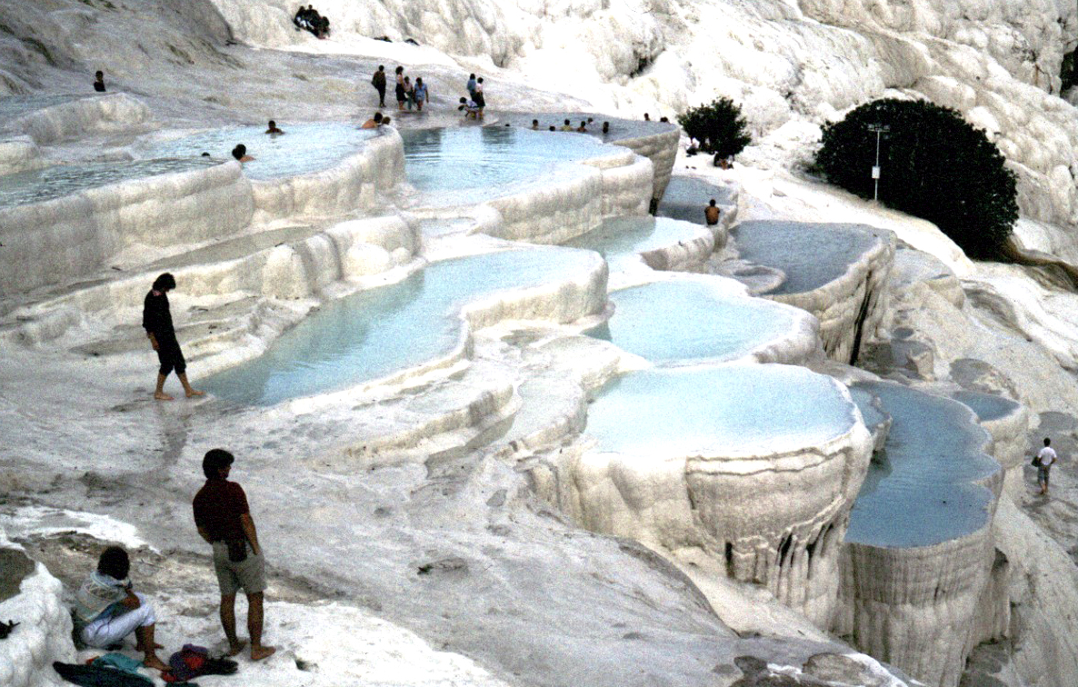 Travertine terraces of Pamukkale, at springtime 1987, in Turkey.